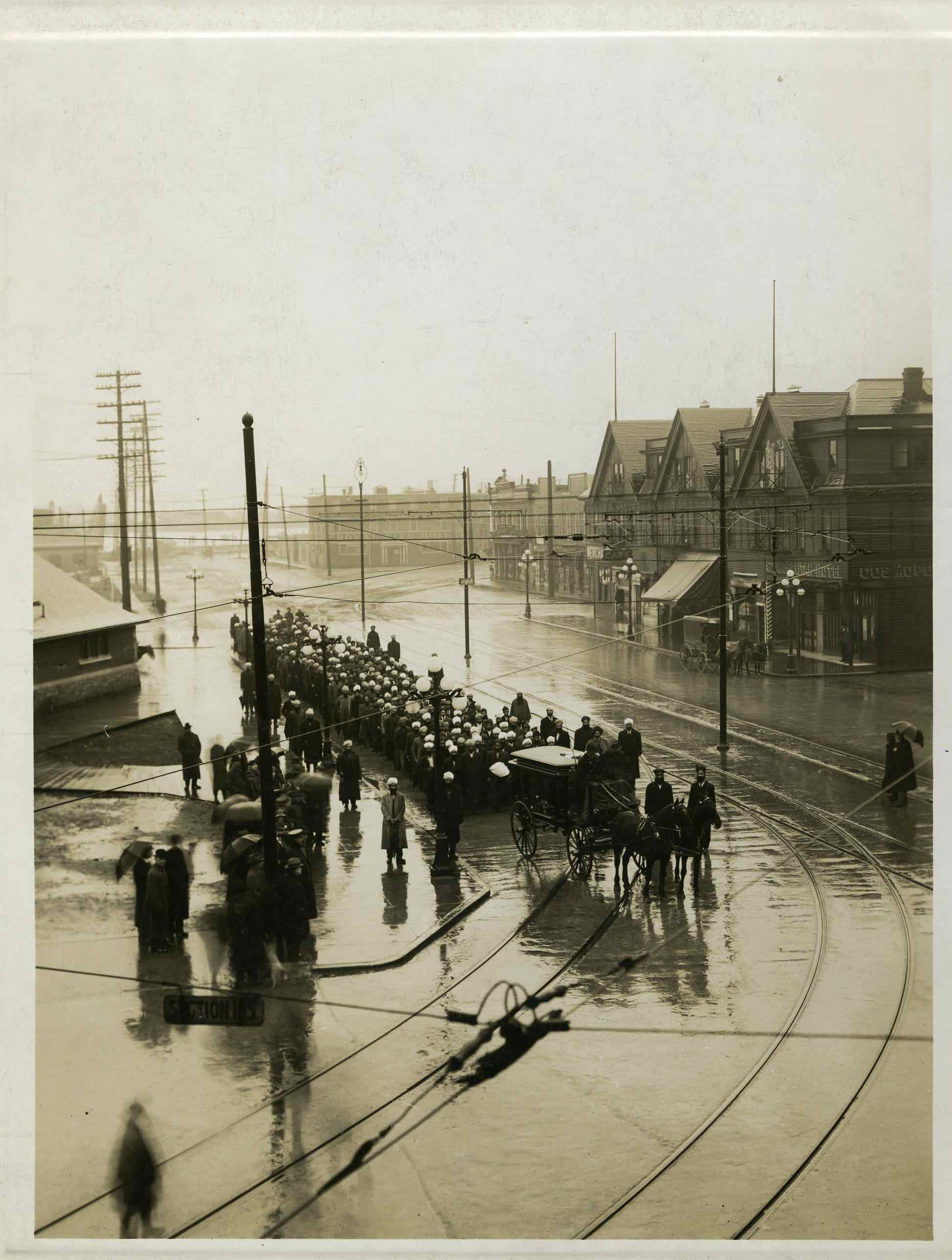 Mewa Singh’s funeral procession on January 11, 1915. Source: Kohaly Collection via Simon Fraser University (komagatamarujourney.ca.)